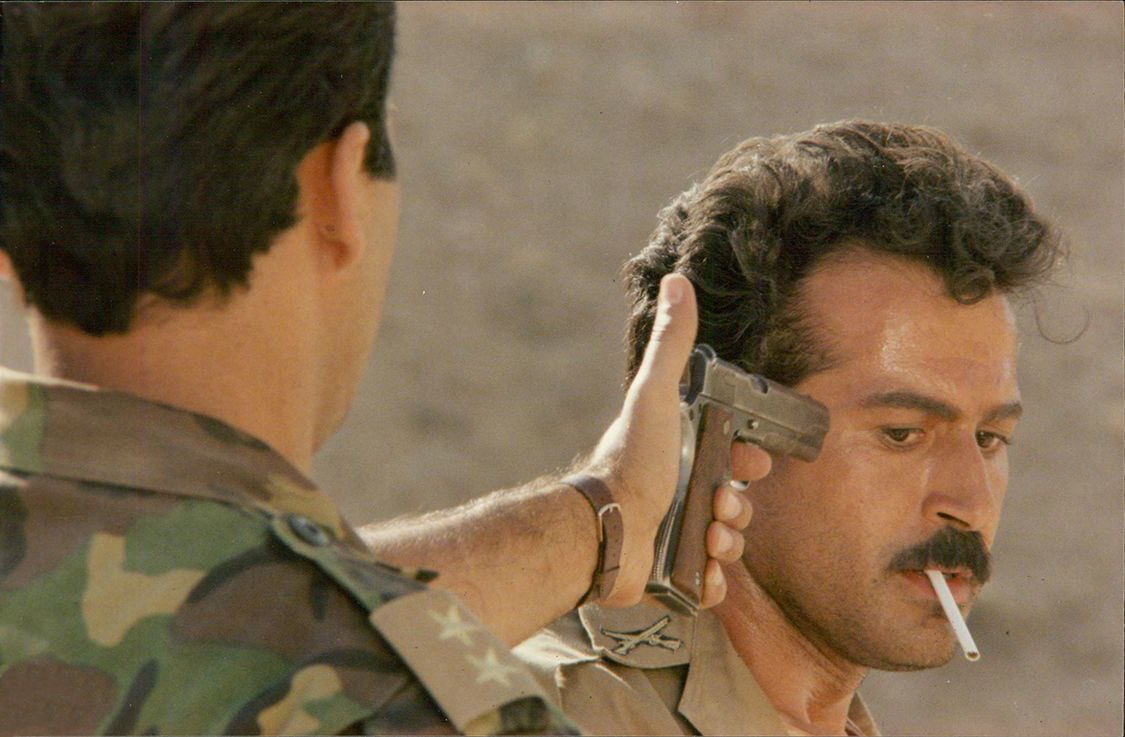 Danial Hakimi in The Leaden Stars